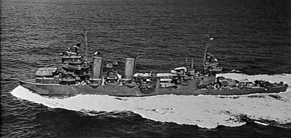 The U.S. Navy heavy cruiser USS New Orleans (CA-32) underway from Sydney, Australia, to the Puget Sound Naval Shipyard, Washington (USA), in March 1943. New Orleans received a temporary bow after a Japanese torpedo tore off the bow up to the No. 2 turret during the Battle of Tassafaronga on 30 November 1942.